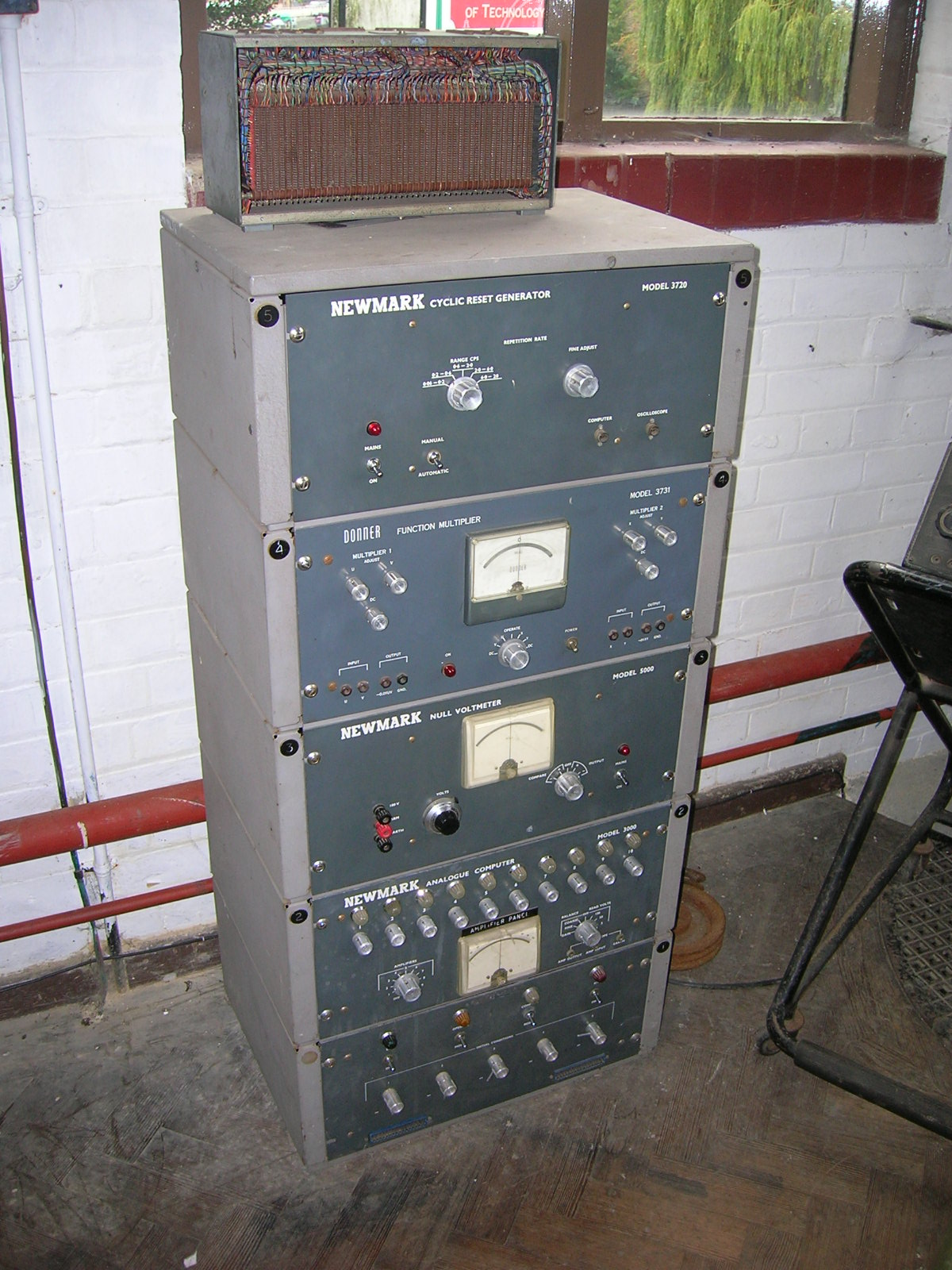 Photograph of a Newmark analogue computer, taken at the Cambridge Museum of Technology